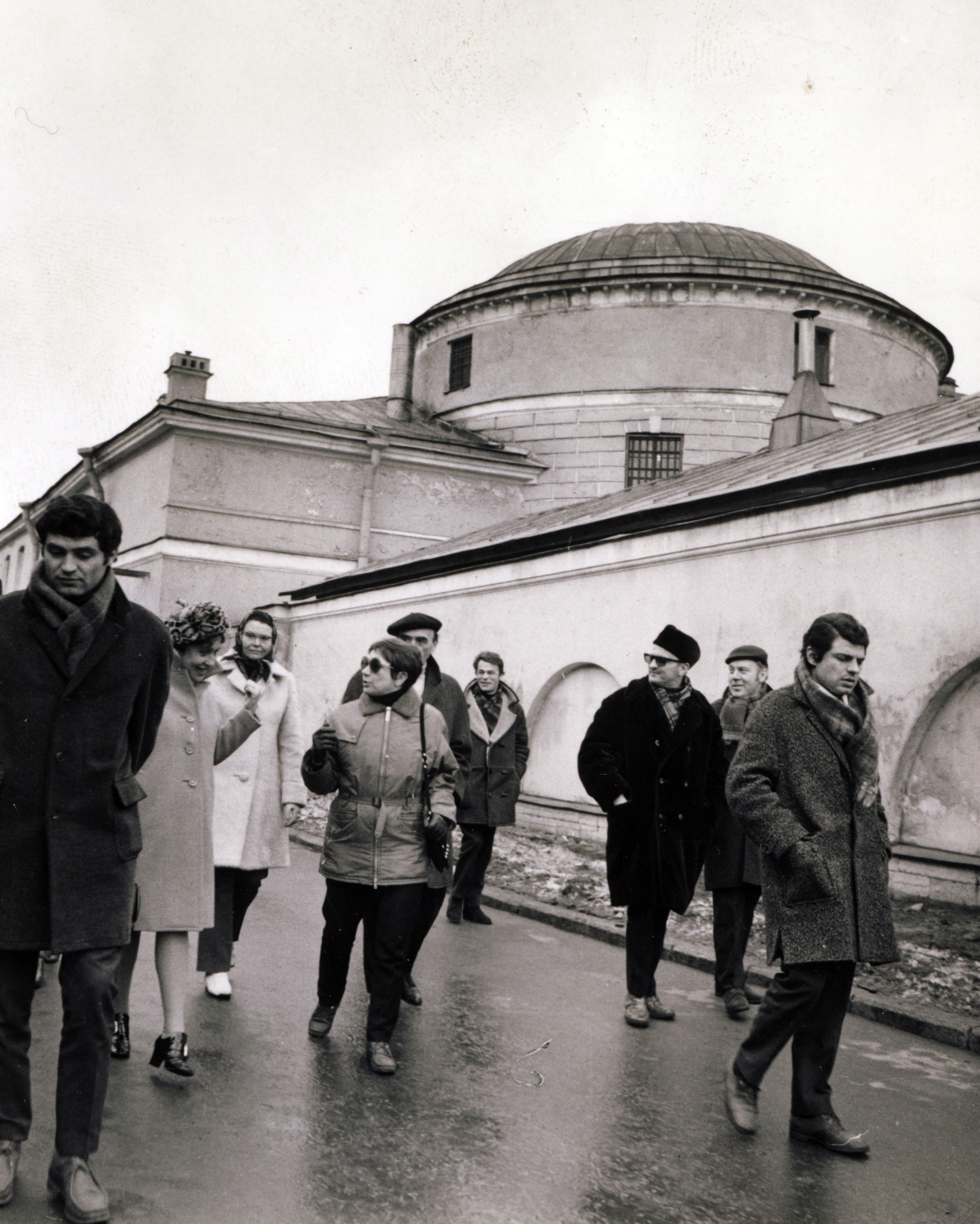 National Theatre Company (Budapest, 1840-2000) actors at a guest play in the Soviet Union